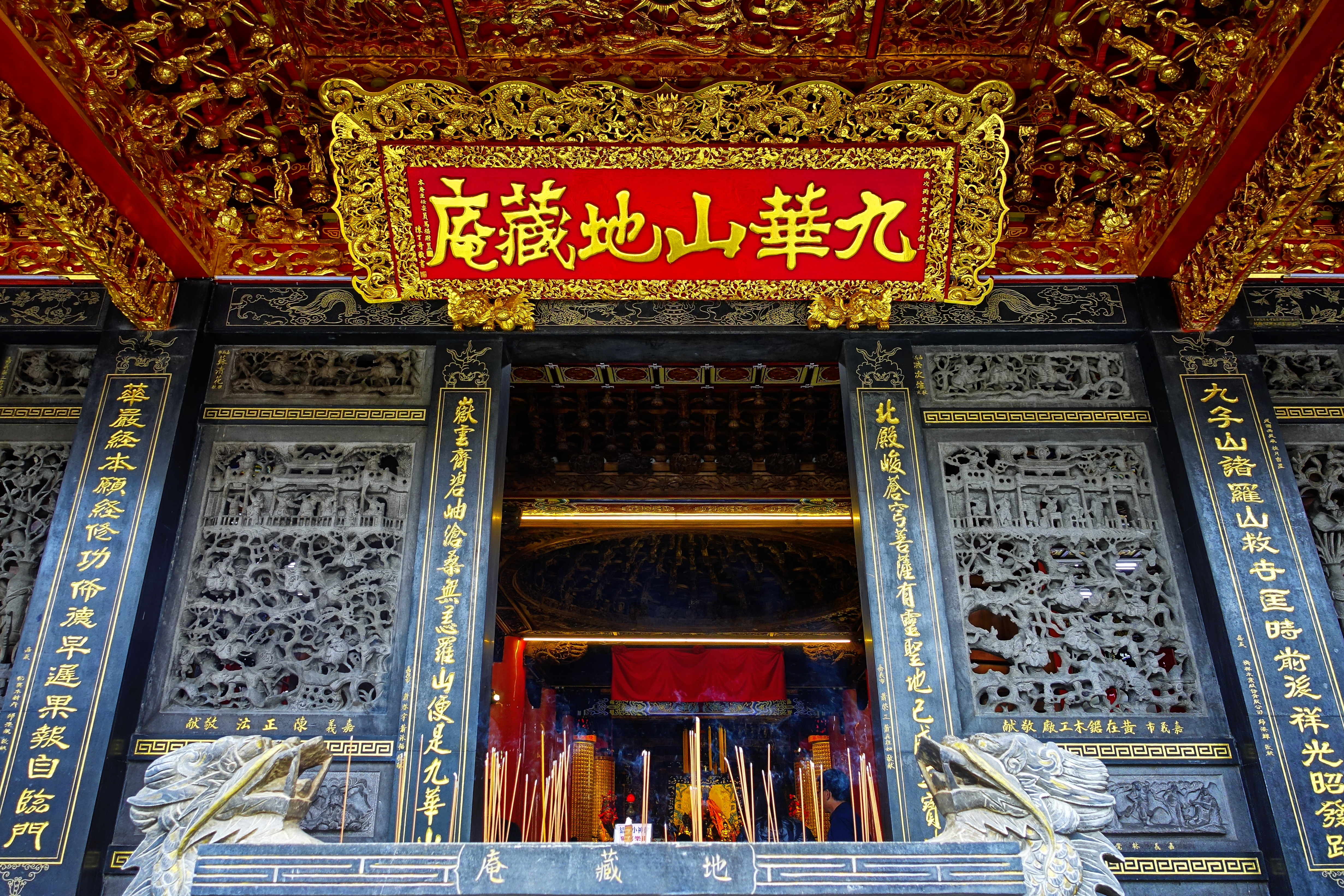 The main shrine of the Chiayi Mount Jiuhua Kshitigarbha Temple, Chiayi City, Taiwan.